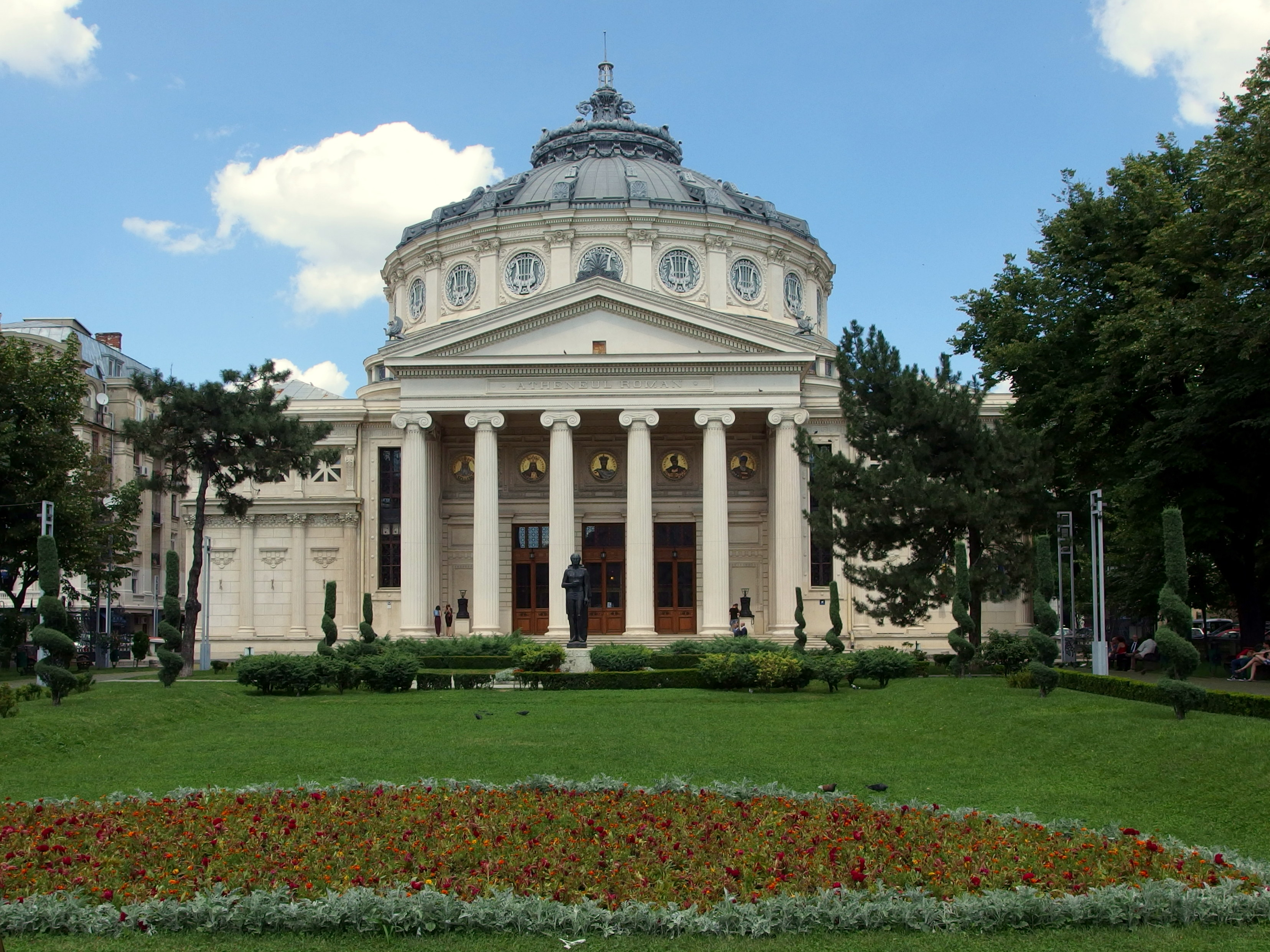 2014-07-02 in Bucureşti.